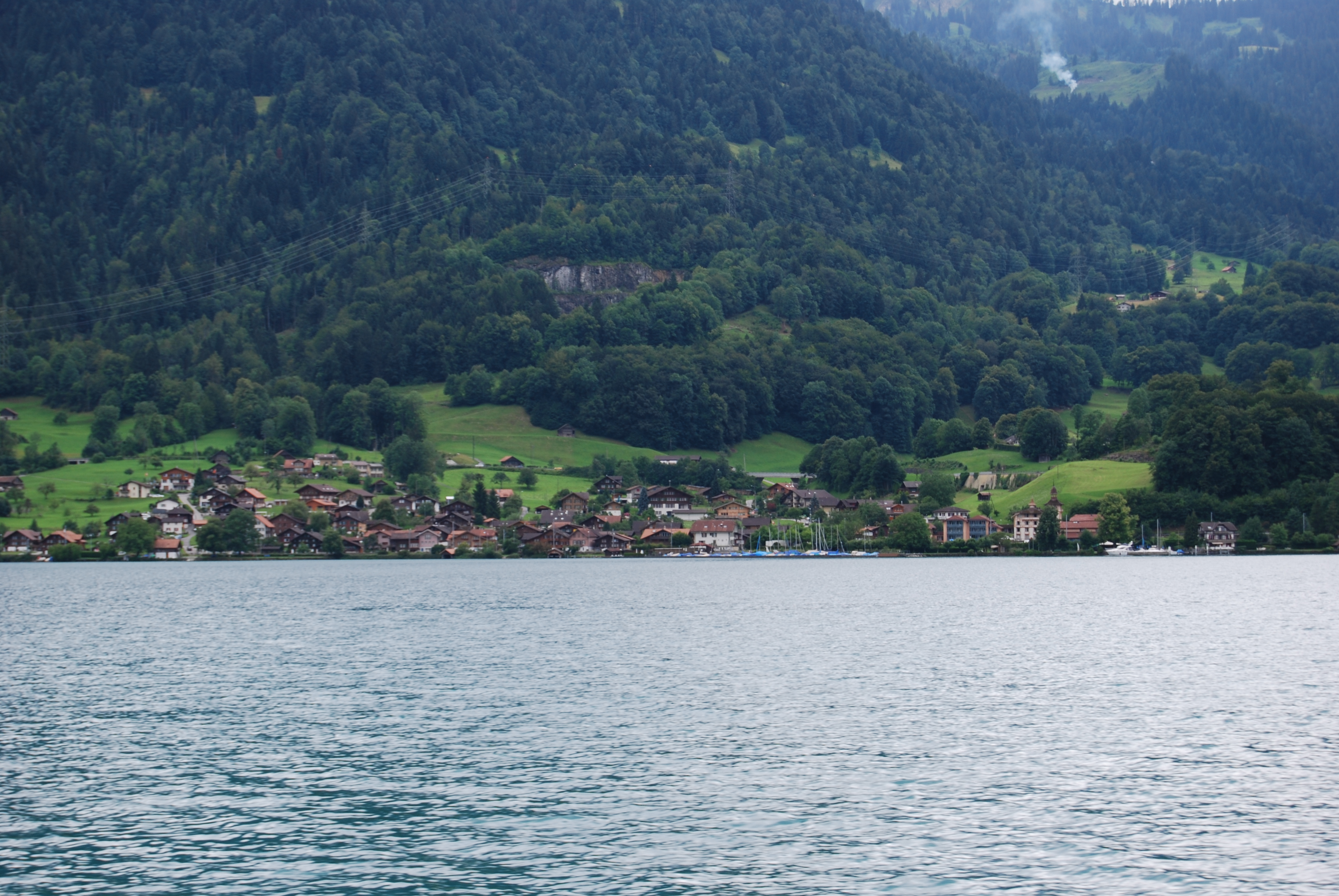 Därligen, canton of Bern, SwitzerlandEsperanto: Därligen, Kantono Berno, Svislando